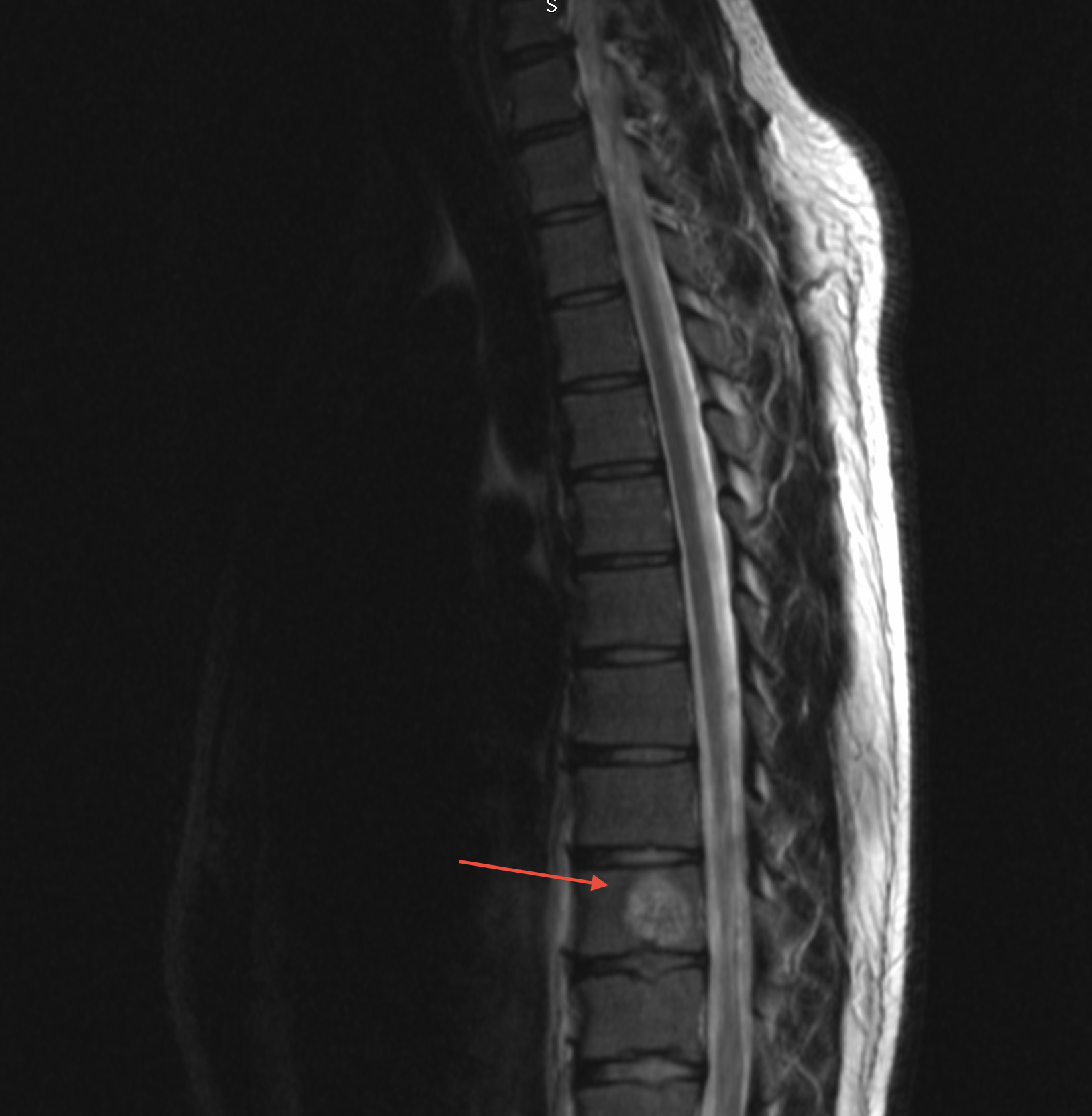 Vertebral hemangioma located within the T10 vertebral body.